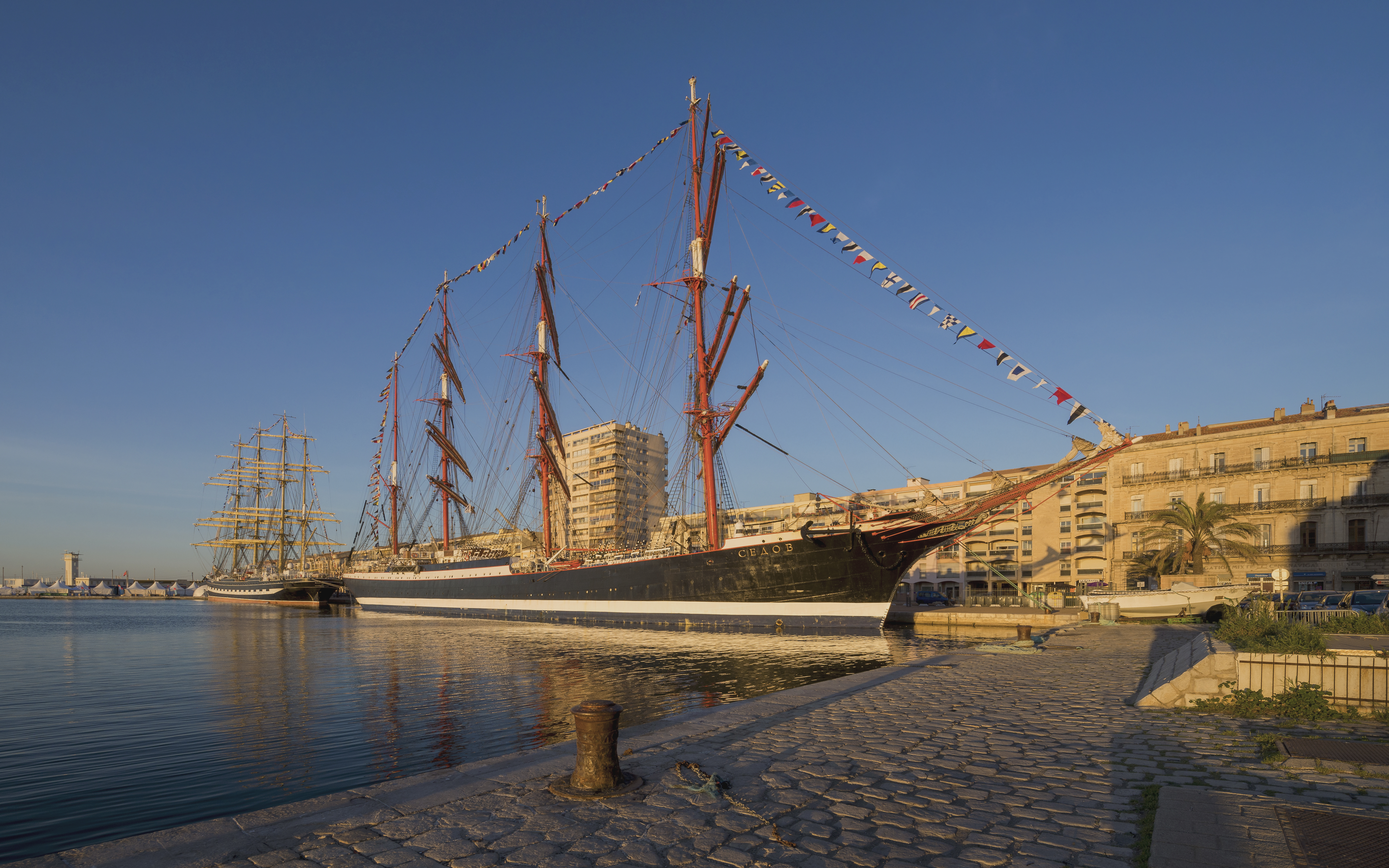 The Sedov (Russian four-masted barque, 1921) and in the background at left the Kruzenshtern (Russian four-masted barque, 1926), moored at the Algiers Embankment. Sète, Hérault, France.